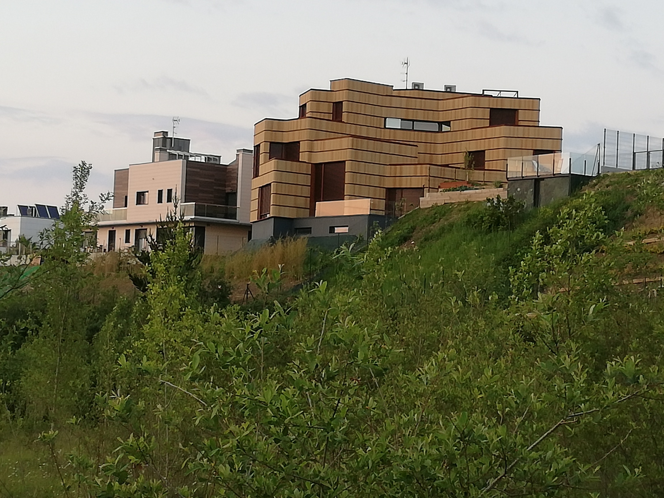 The new neighborhood is made up of single-family homes of different designs.